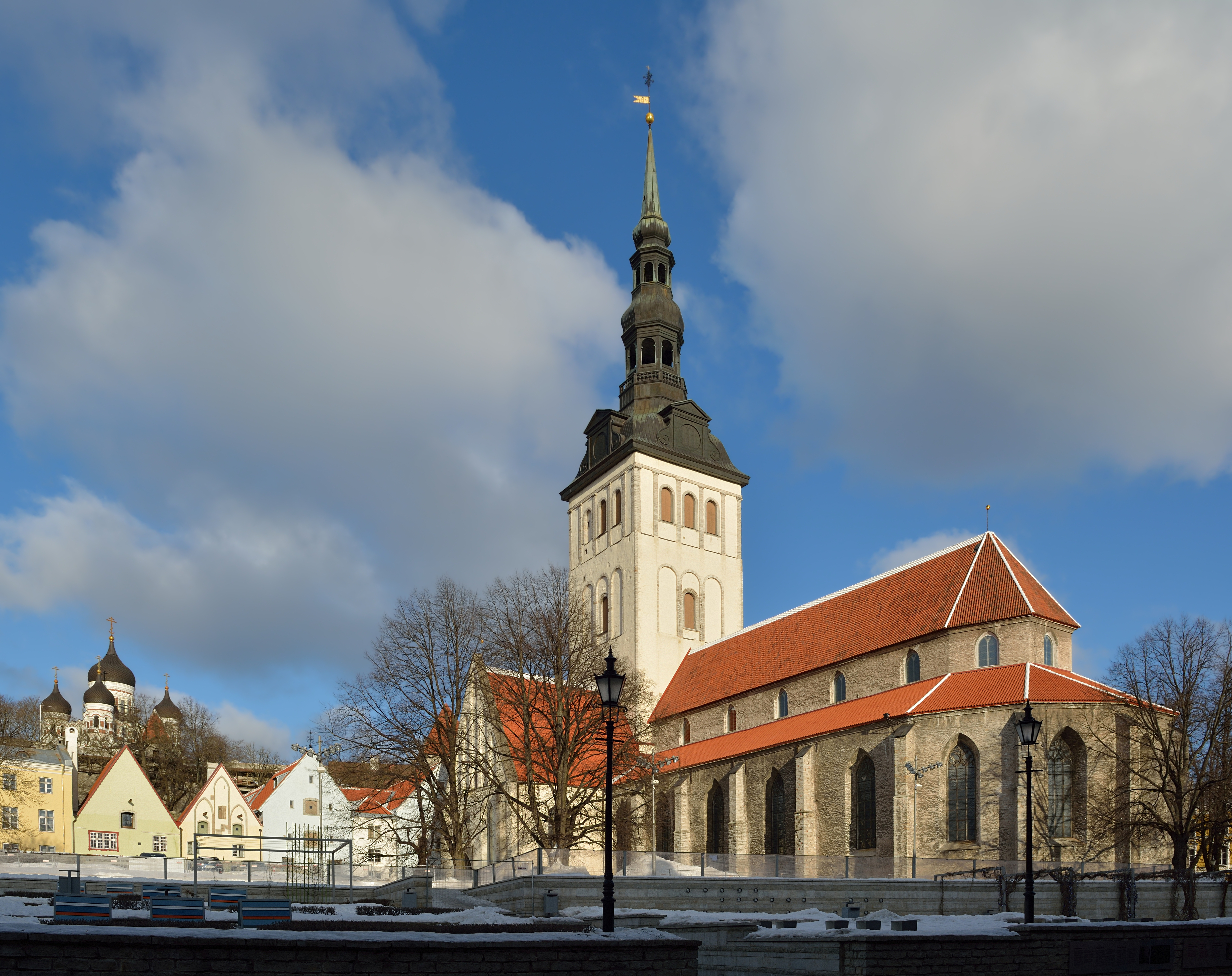 St. Nicholas' Church, Tallinn